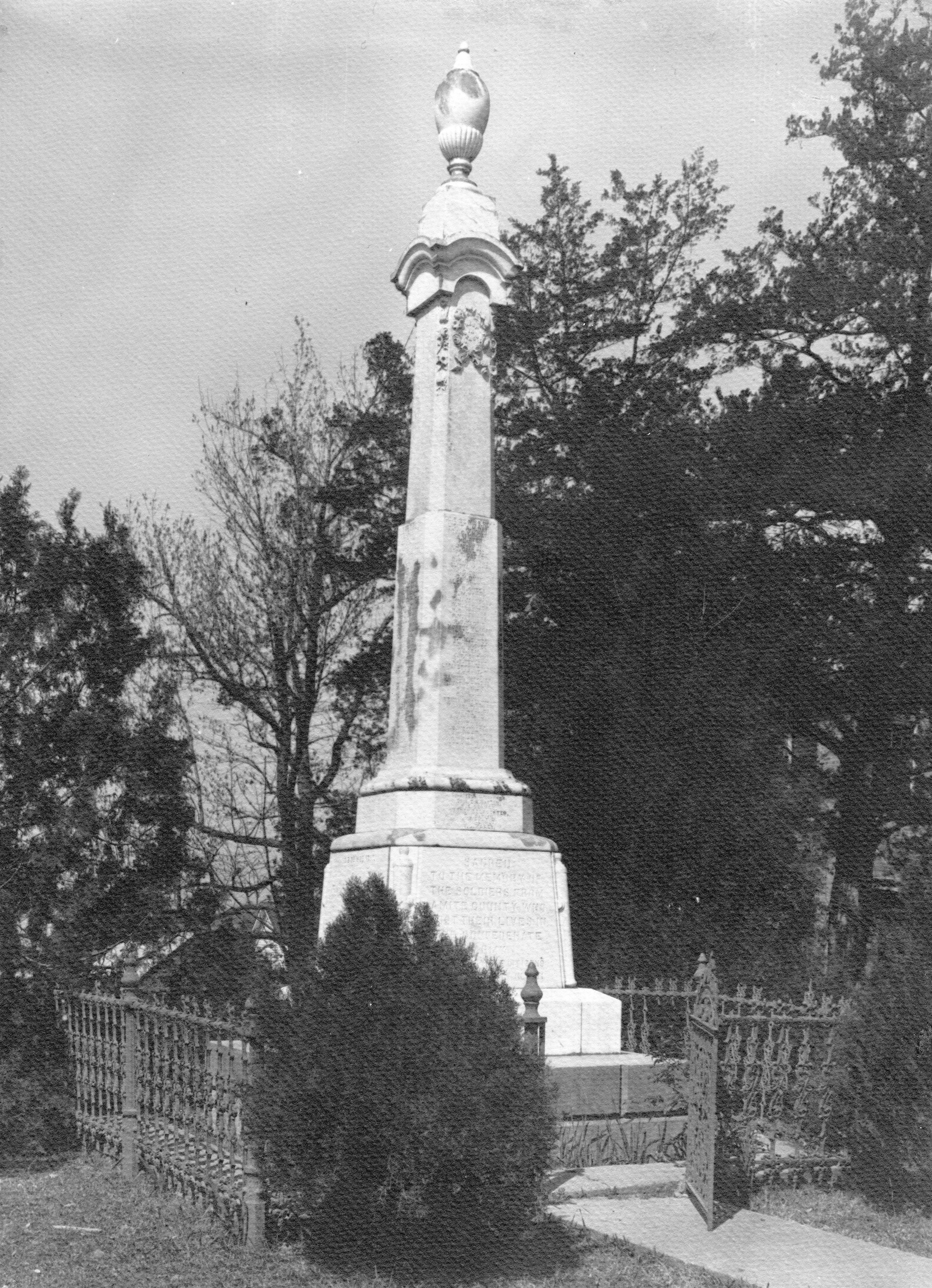 Erected in 1871, the Confederate Monument in Liberty was the first in Mississippi. Collection: Works Progress Administration Scrapbooks, 1936-1941 Call number: Series 443 System ID: 73473. Link to the catalog Pictorial History of South Mississippi. Please see our profile page for information on ordering. Scanned as TIFF in 2013/05/13 by MDAH. Credit: Courtesy of the Mississippi Department of Archives and History